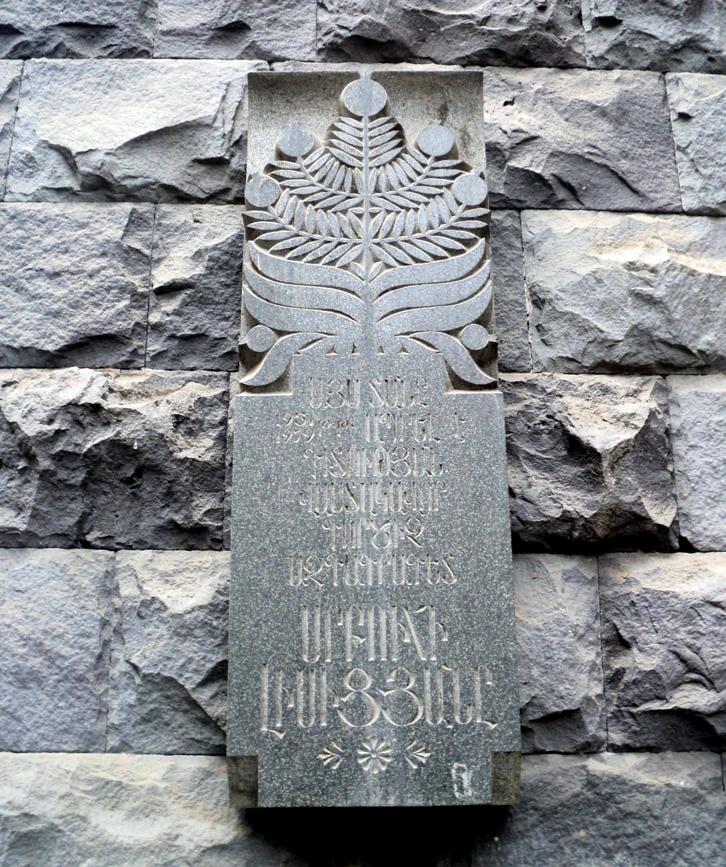 Srbuhi LIsitsyan's plaque